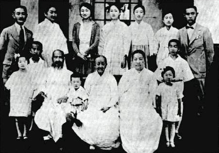 Yun Chi-ho's Family